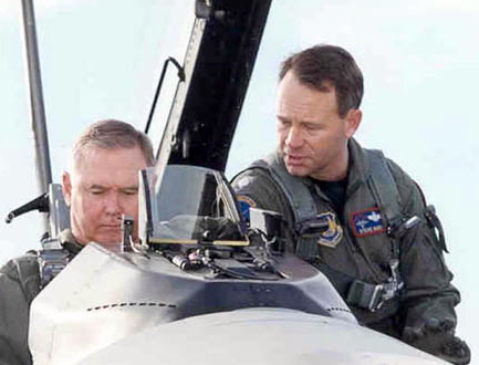 Cropped and slightly retouched version of original image. Lt. Col. Steve Rainey, right, 411th Flight Test Squadron commander, briefs Air Force Chief of Staff Gen. Michael Ryan before a flight in an F-16 Fighting Falcon here Jan. 11. The two flew chase during an F-22 Raptor test mission. The general also received briefings on the F-22, Joint Strike Fighter and the Global Hawk unmanned aerial vehicle. (Photo by Tom Reynolds). Photo is tagged as "courtesy USAF photo" at Original photo published in Air Force News.